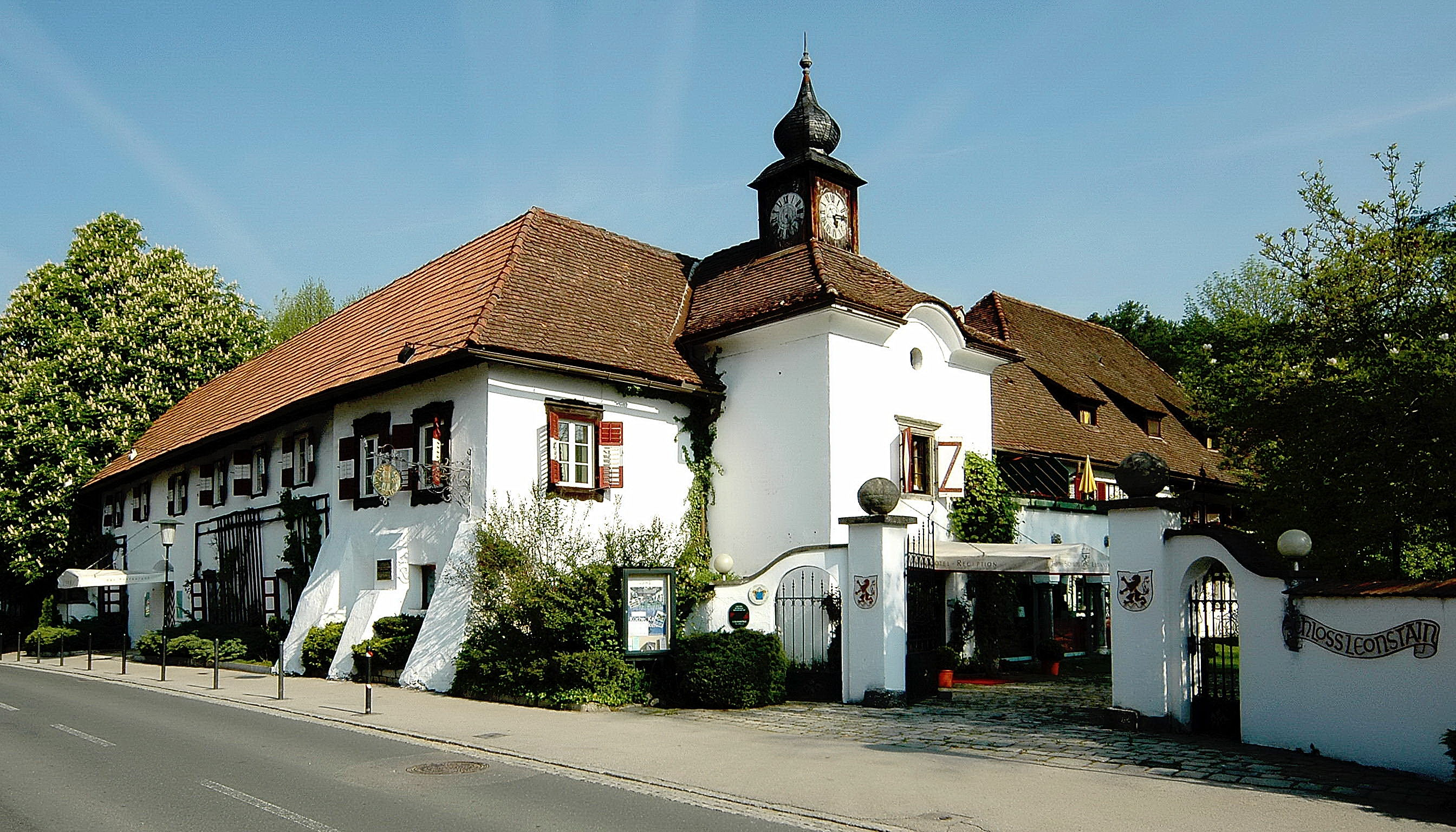 Castle “Leonstain” at Poertschach on the Lake Woerth, Carinthia, Austria